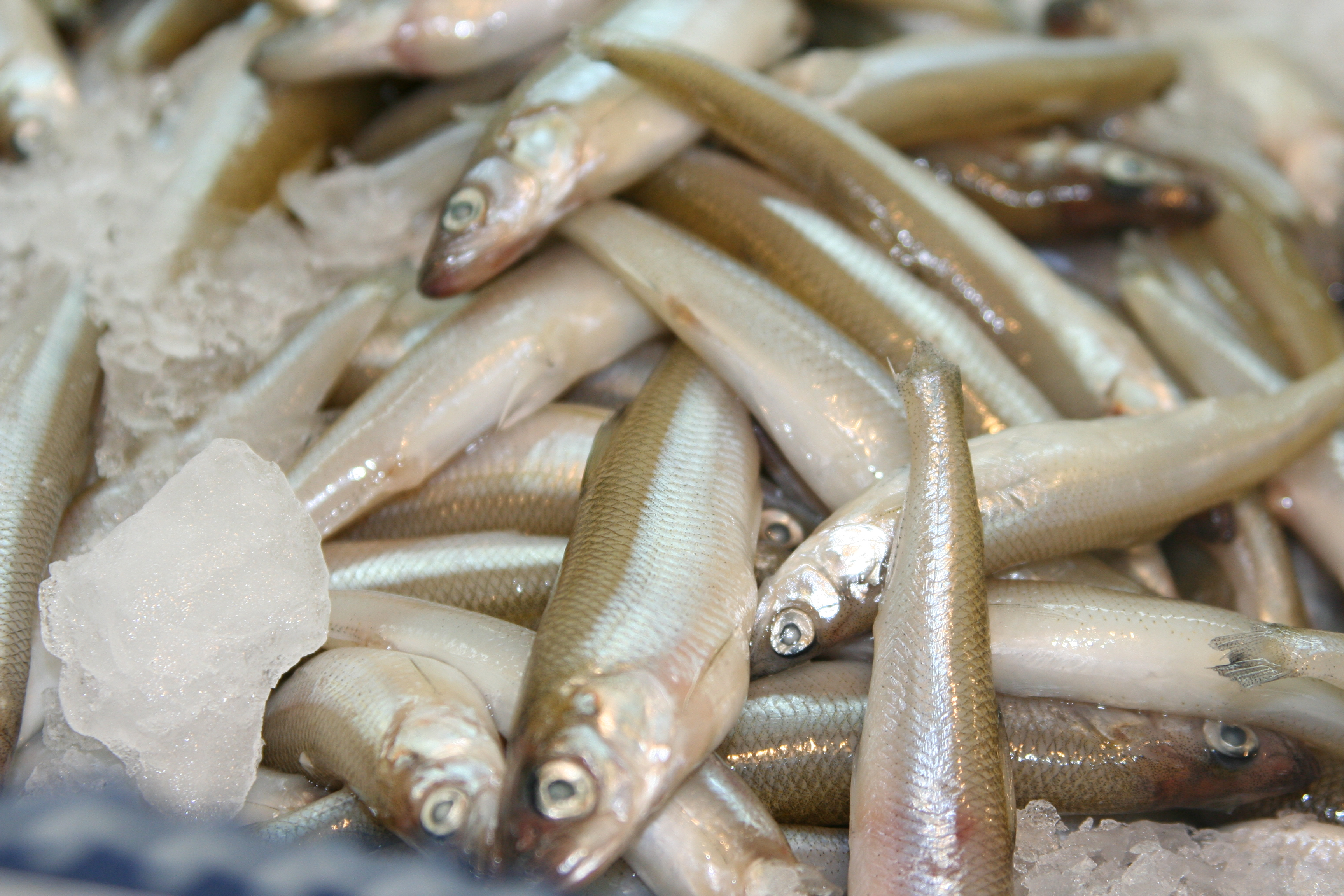 Smelt at a California fish market in 2009.